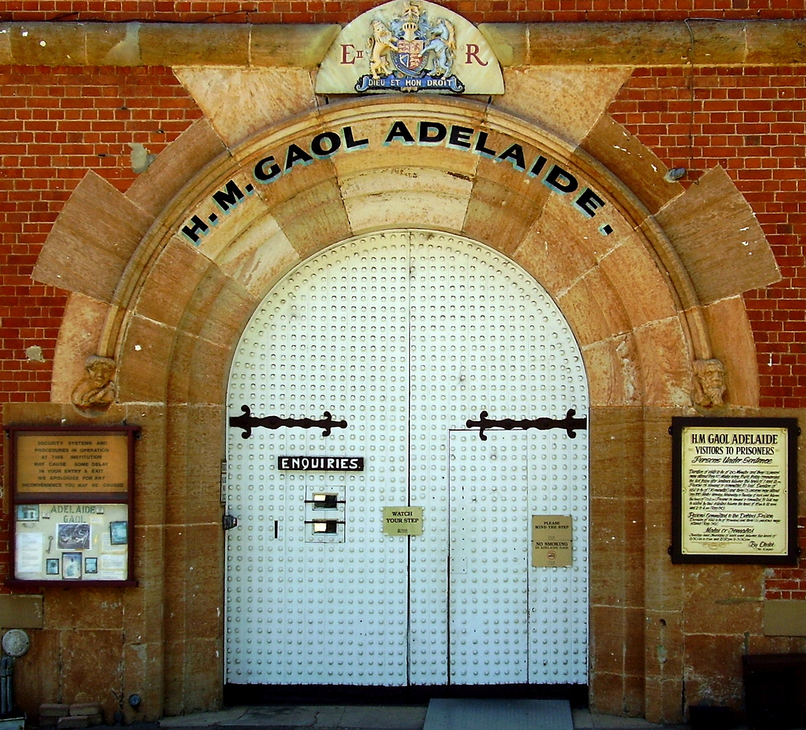 Cropped image of the Main Entrance to Adelaide Gaol.